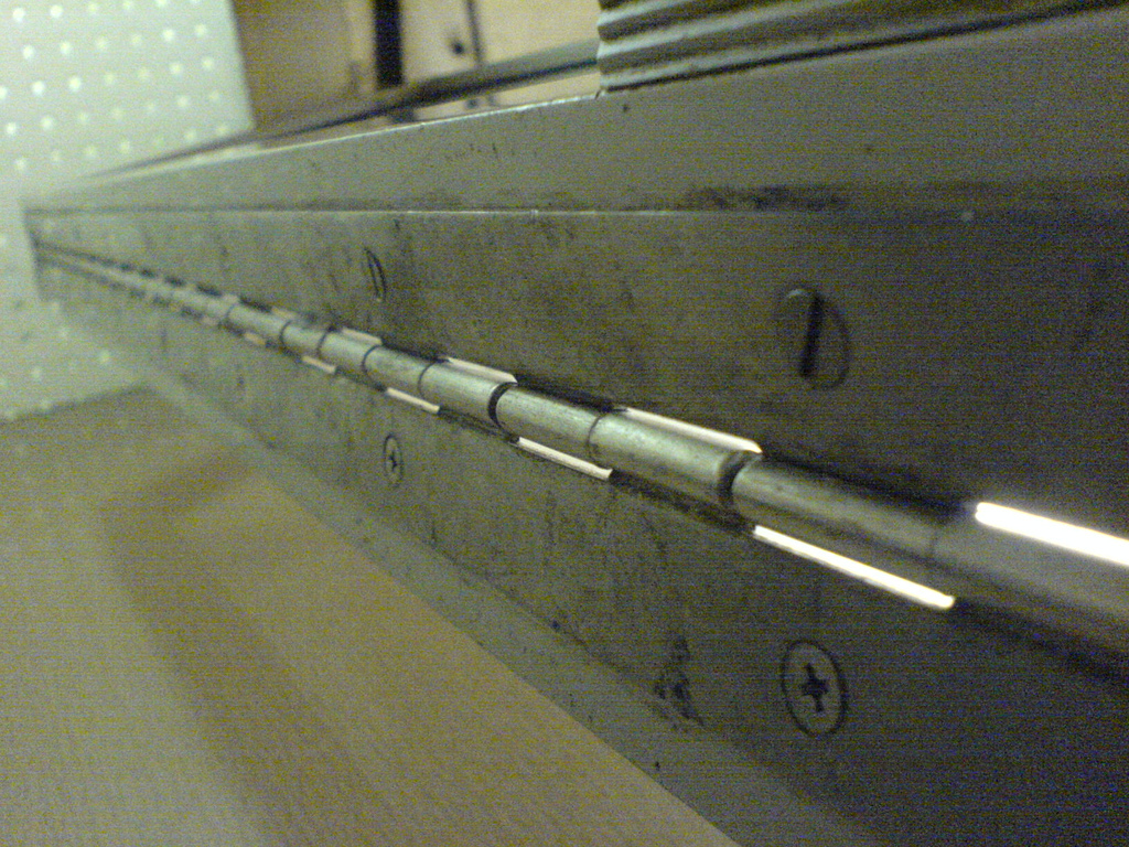 strap hinge